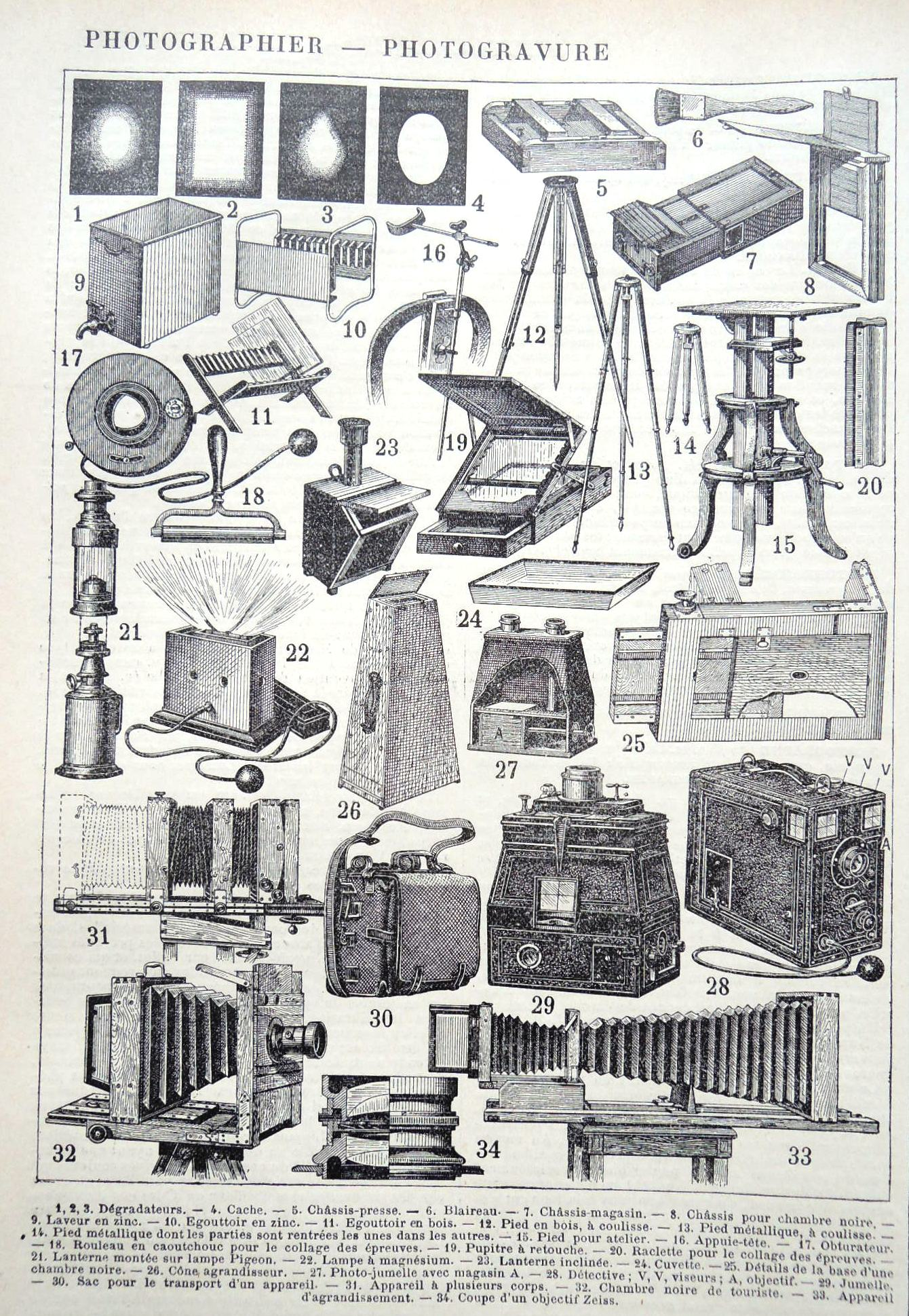 19th Century photographic instruments